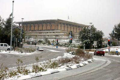 kneset